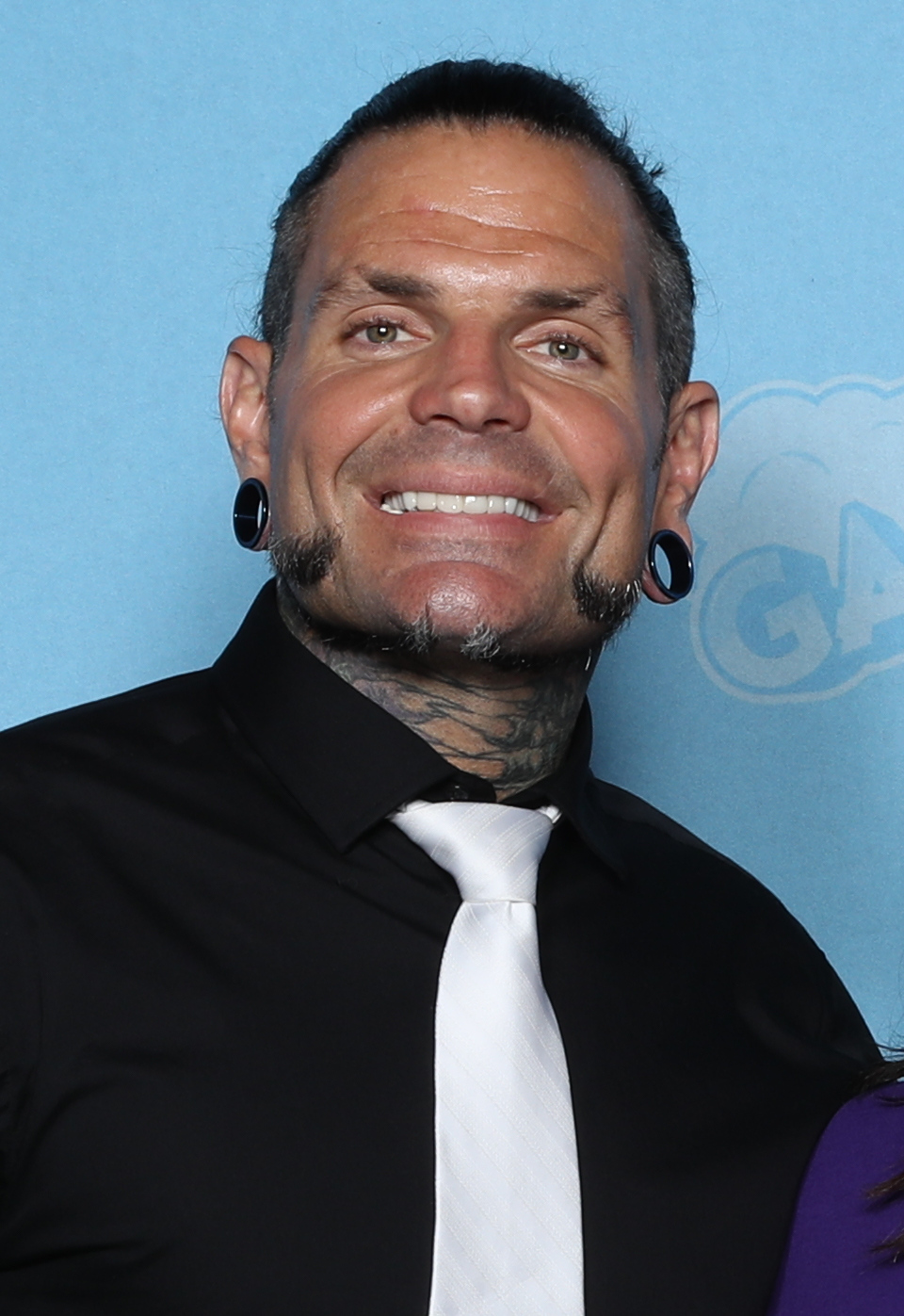 Professional wrestler, Jeff Hardy on July 25, 2019 at GalaxyCon Raleigh